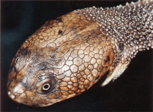 Head shot of Chelodina canni